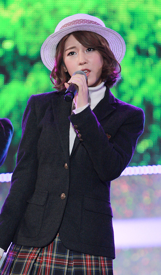 Han Na-yeon at 2013 Seoul Multicultural Festival